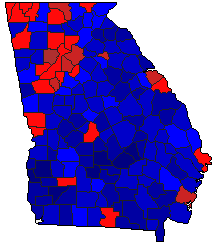 1980 Georgia Senate Election Results